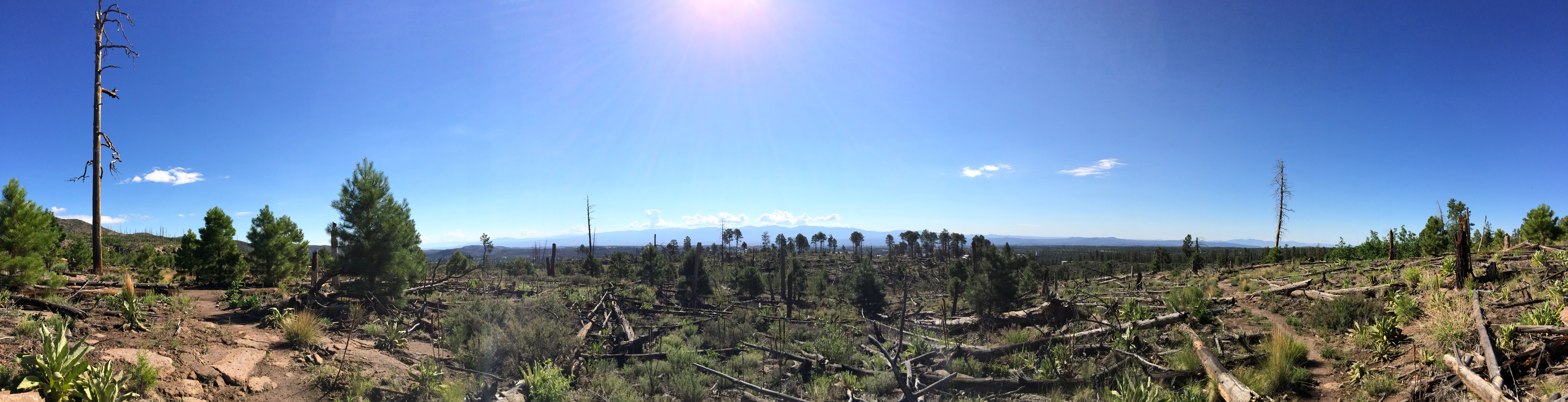 The lasting effects of the Cerro Grande wildfire on the Quemazon Trail west of Los Alamos as seen in July 2014.